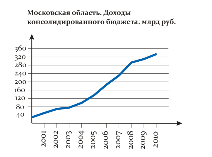 Budget revenues of the Moscow region. 2000—2010.